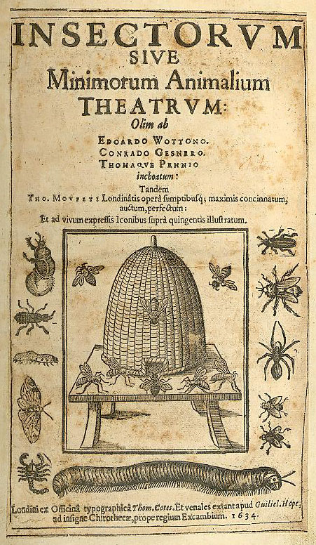 Thomas Moffet, Insectorum sive minimorum animalium theatrum, Londres, Thom. Cotes, 1634, In-folio, 30 x 19 cm